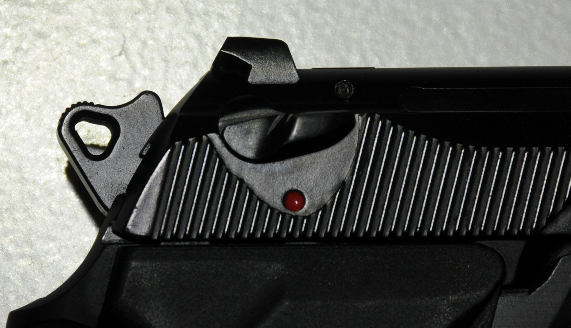 This is the decocking/safety lever on the Beretta 90 TWO.